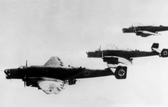 Three German Junkers Ju 86A or Ju 86D bombers in flight before the Second World War.